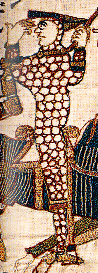 Panel from the Bayeux Tapestry - this one depicts Duke William lifting his helmet at the Battle of Hastings to show that he still lives. Scanned from Lucien Musset's The Bayeux Tapestry ISBN 9781843831631 pp 250-251.